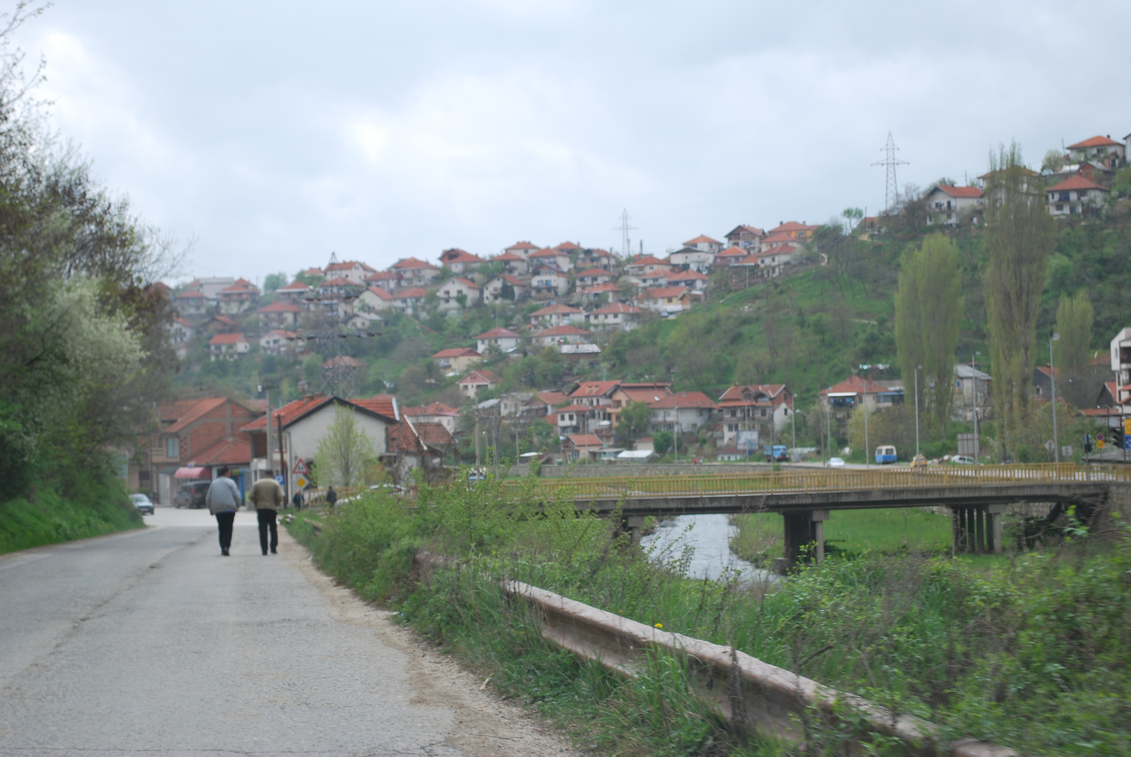 Kriva Palanka, Macedonia